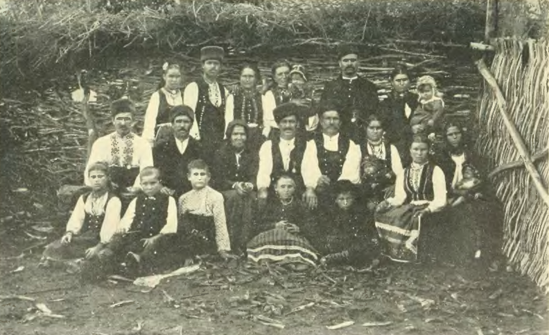 A Bulgarian pesant family before 1914.